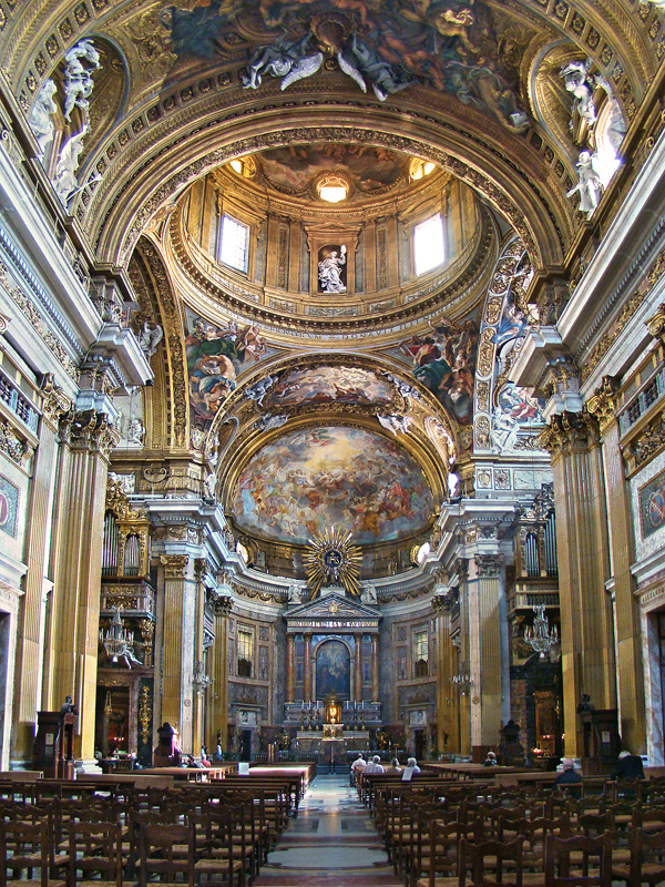 Church of the Gesu, Rome, Lazio, Italy.